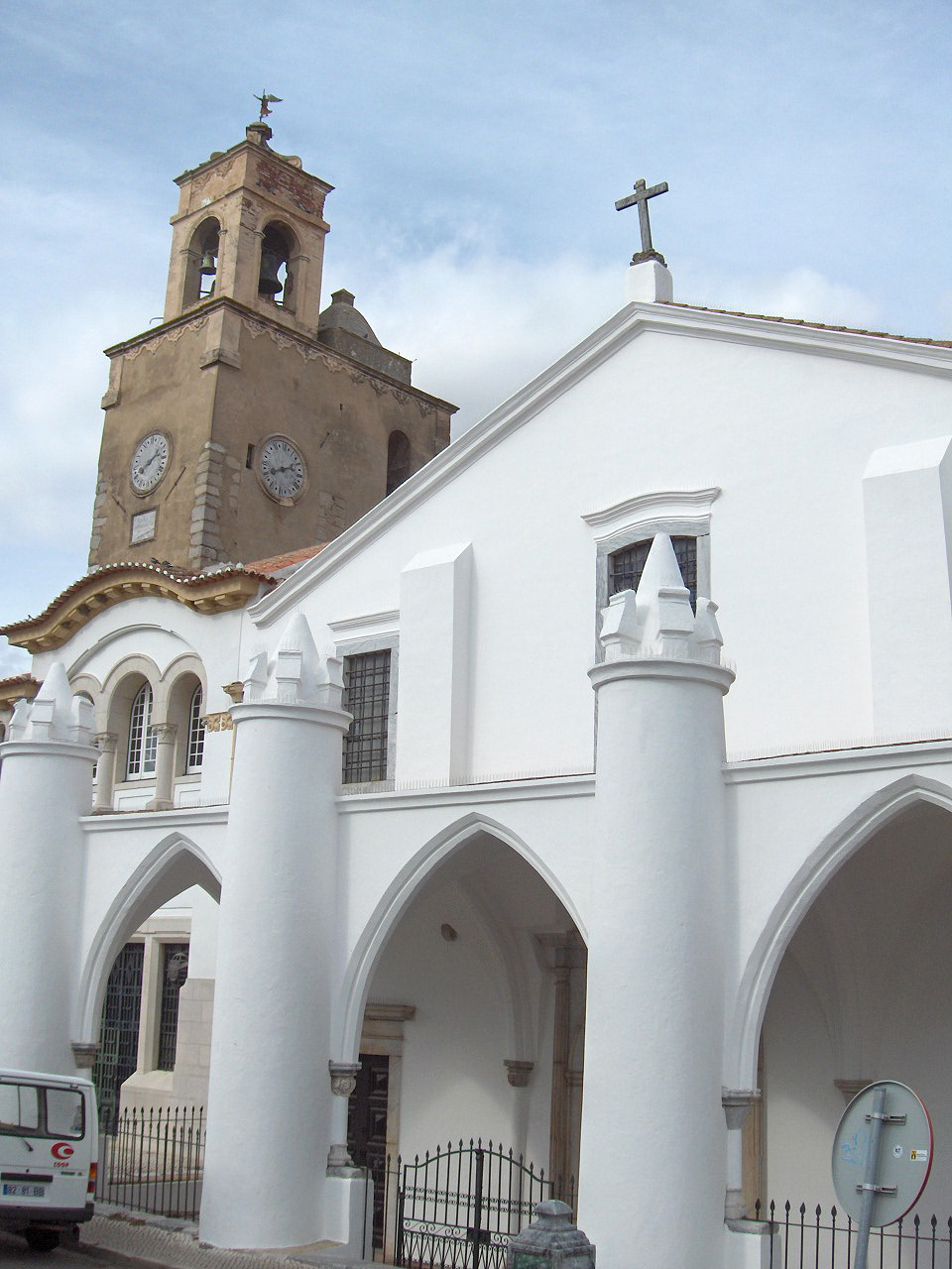 Church of Santa Maria (with Mudejar arches and massive round pillars); Beja, Portugal